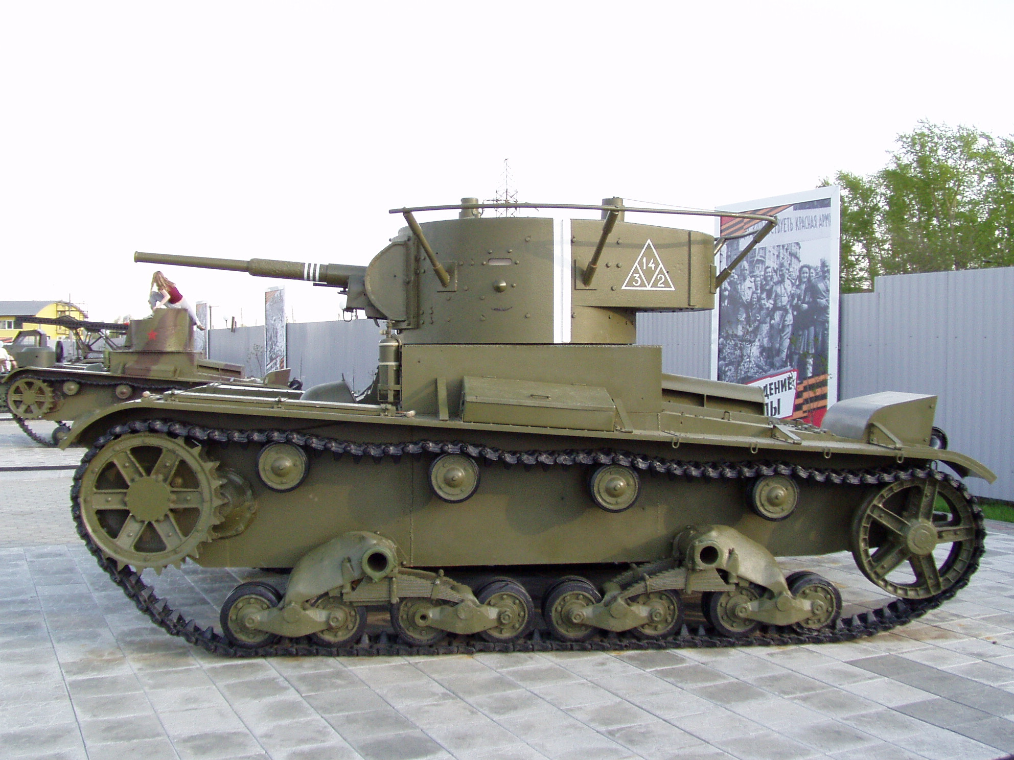 Soviet "Vickers"-copy